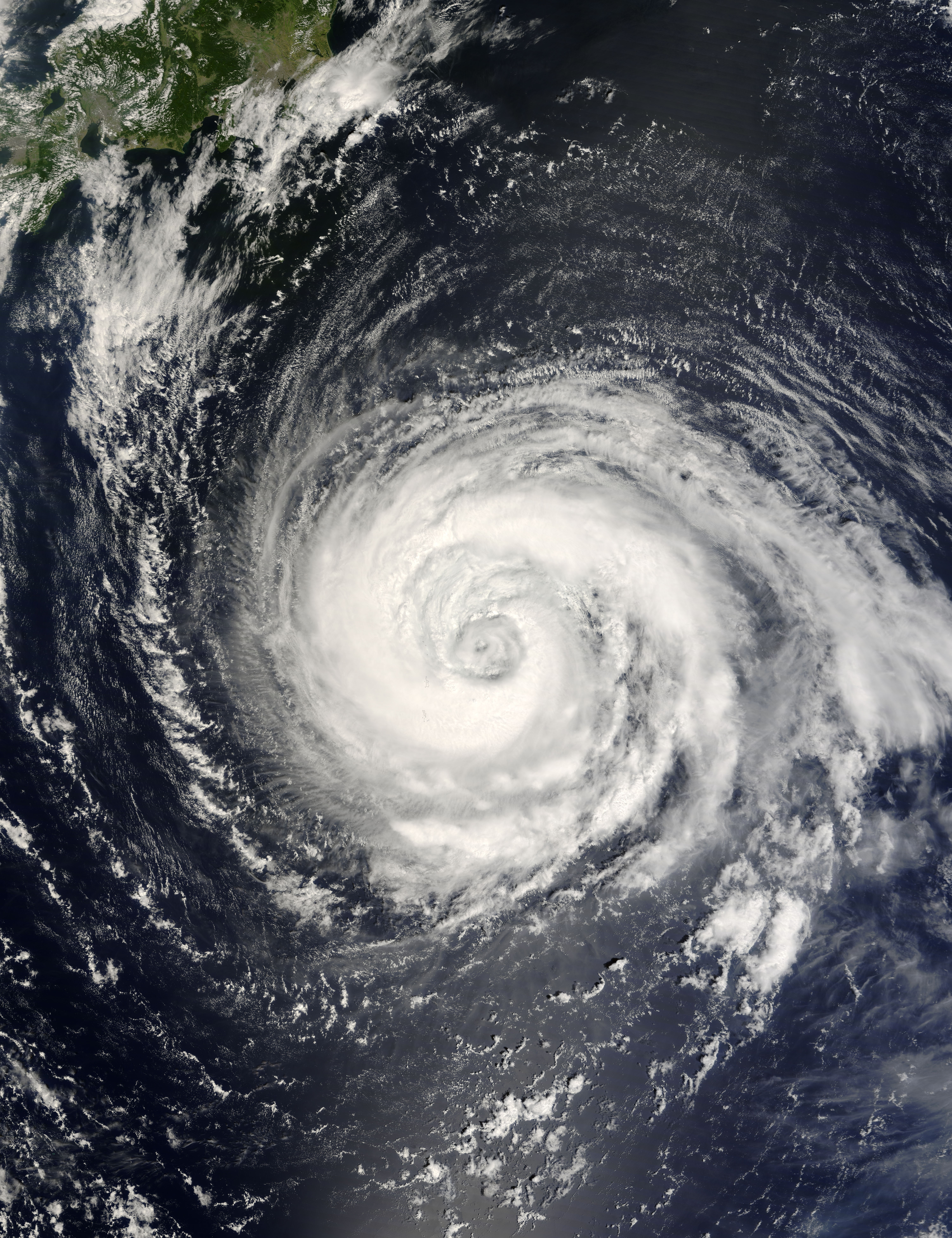 The name Fitow comes from the name of a Micronesian flower found on the island of Yap, according to the Hong Kong Observatory, which provides the list of names for typhoons in the Western Pacific. Typhoon Fitow claimed its name from this list after forming in the western Pacific and reaching typhoon status on August 29, 2007. The storm system gradually built in power as it drew towards the main islands of Japan, briefly weakening from Category Two to Category One, before rebuilding again. Forecasters were calling for the storm to continue on its track towards Honshu and make landfall on the island either late on September 5 or early in the morning of September 6. Fitow tracked through a sparsely populated portion of the Pacific Ocean, bringing heavy rain and storm-driven waves to those islands near its path. The Moderate Resolution Imaging Spectroradiometer (MODIS) on NASA’s Terra satellite acquired this photo-like image at 10:15 a.m. local time (1:15 UTC) on September 4, 2007. Just a few hours before MODIS observed the storm, the Joint Typhoon Warning Center estimated Fitow’s sustained winds to be over 130 kilometers per hour (80 miles per hour). The satellite image shows Fitow to have tightly wound bands of clouds around a well-defined, though cloud-filled eye, and towering thunderstorms characteristic of powerful tropical storm systems (the generic name for typhoon, hurricanes, and tropical cyclones). At the time MODIS observed Typhoon Fitow, the storm was brushing along the Bonin Islands as it tracked north-northwest towards Honshu, the largest of the islands in the Japanese chain. The high-resolution image provided above is at MODIS’ full spatial resolution (level of detail) of 250 meters per pixel. The MODIS Rapid Response System provides this image at additional resolutions.